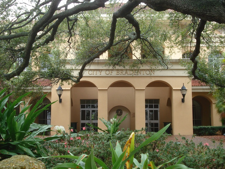 Picture of Bradenton City Hall in Florida